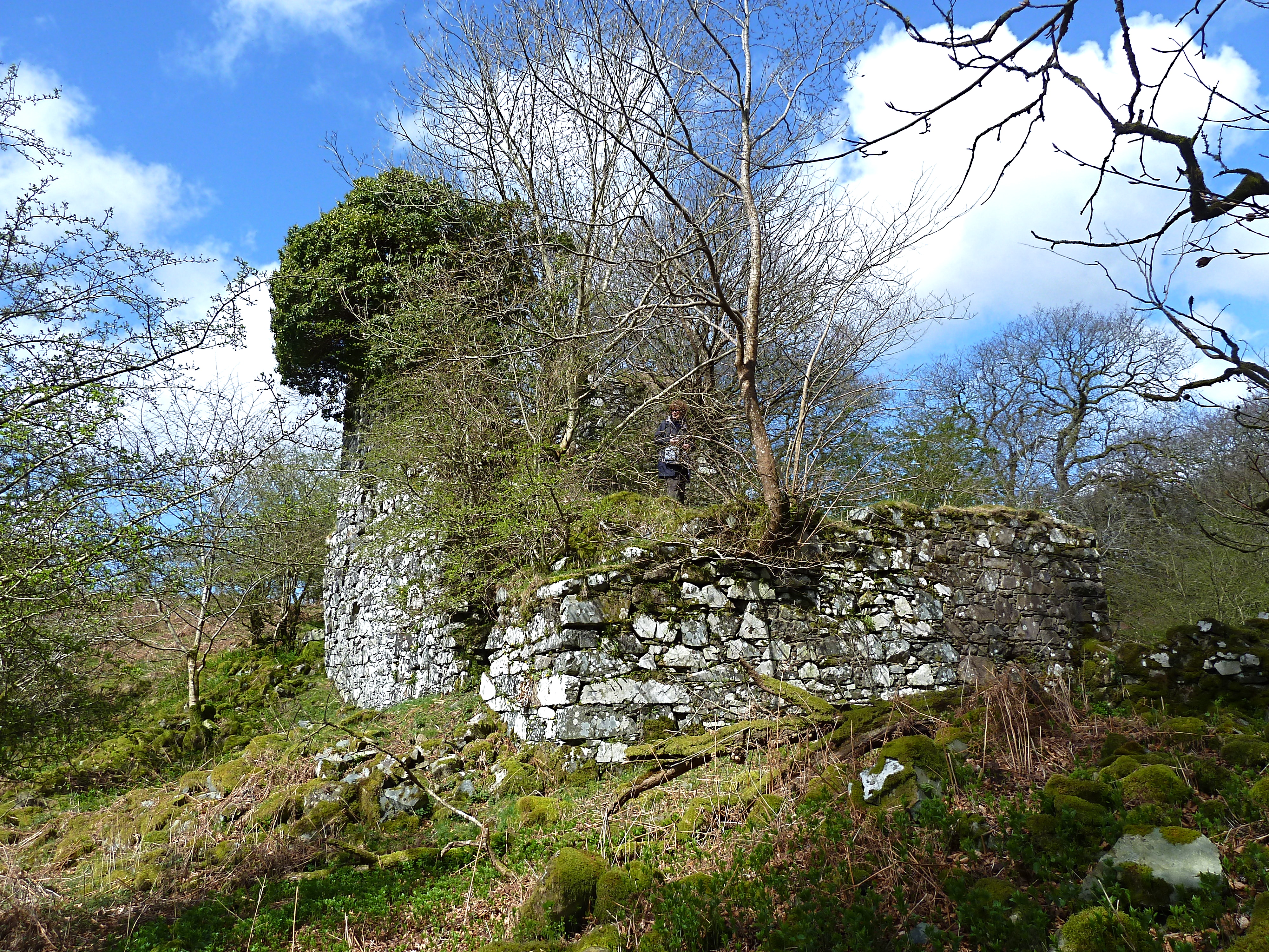 Garlies Castle, Minnigaff, Kirkcudbrightshire (2). Ancient seat of the Earls of Galloway